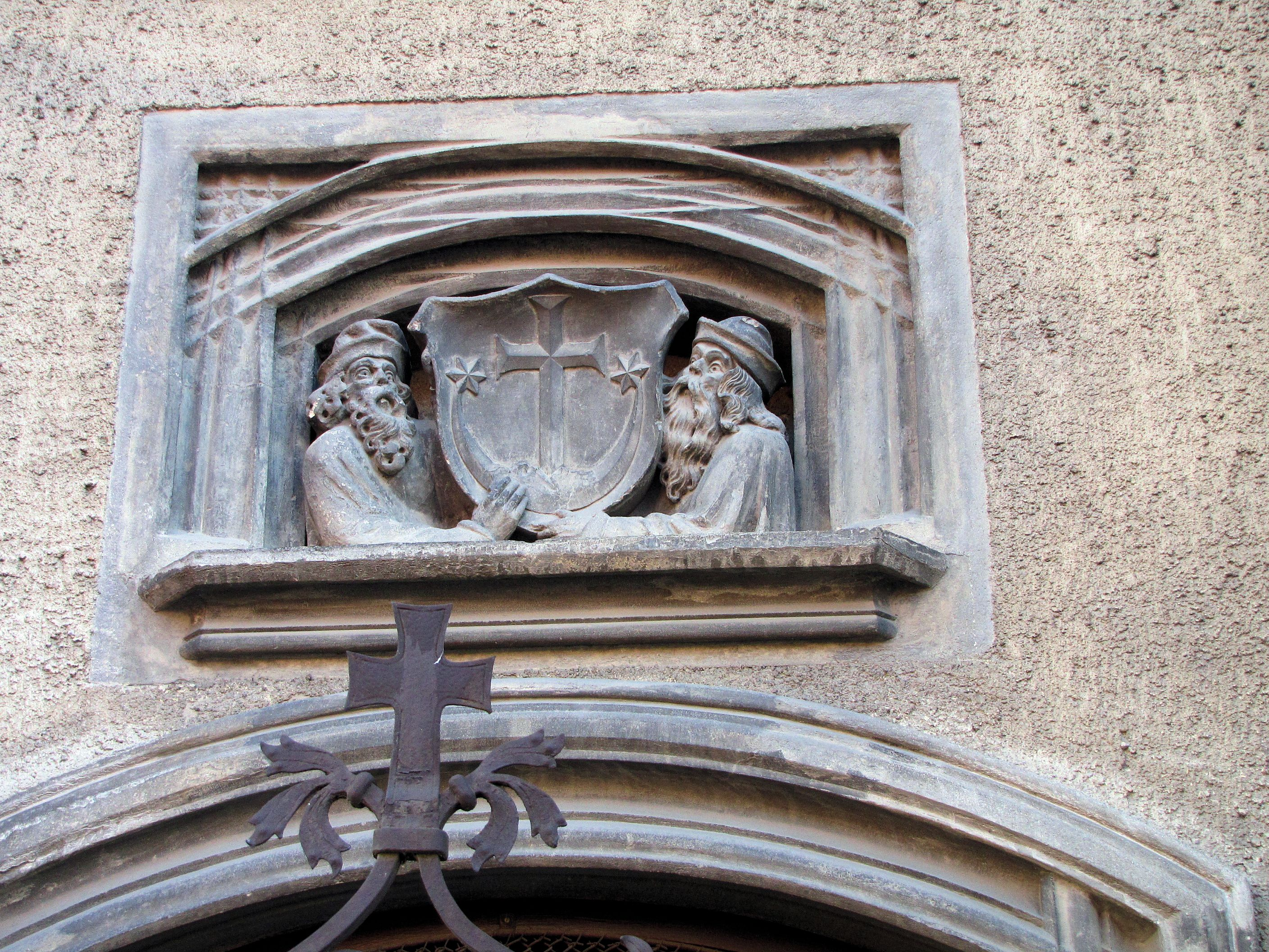 Sculpture below the gate of Church of St John, Sopron.